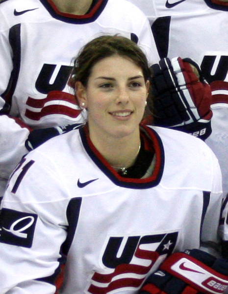 The United States women's national ice hockey team after a game against the ECAC All-Stars on January 3, 2010.